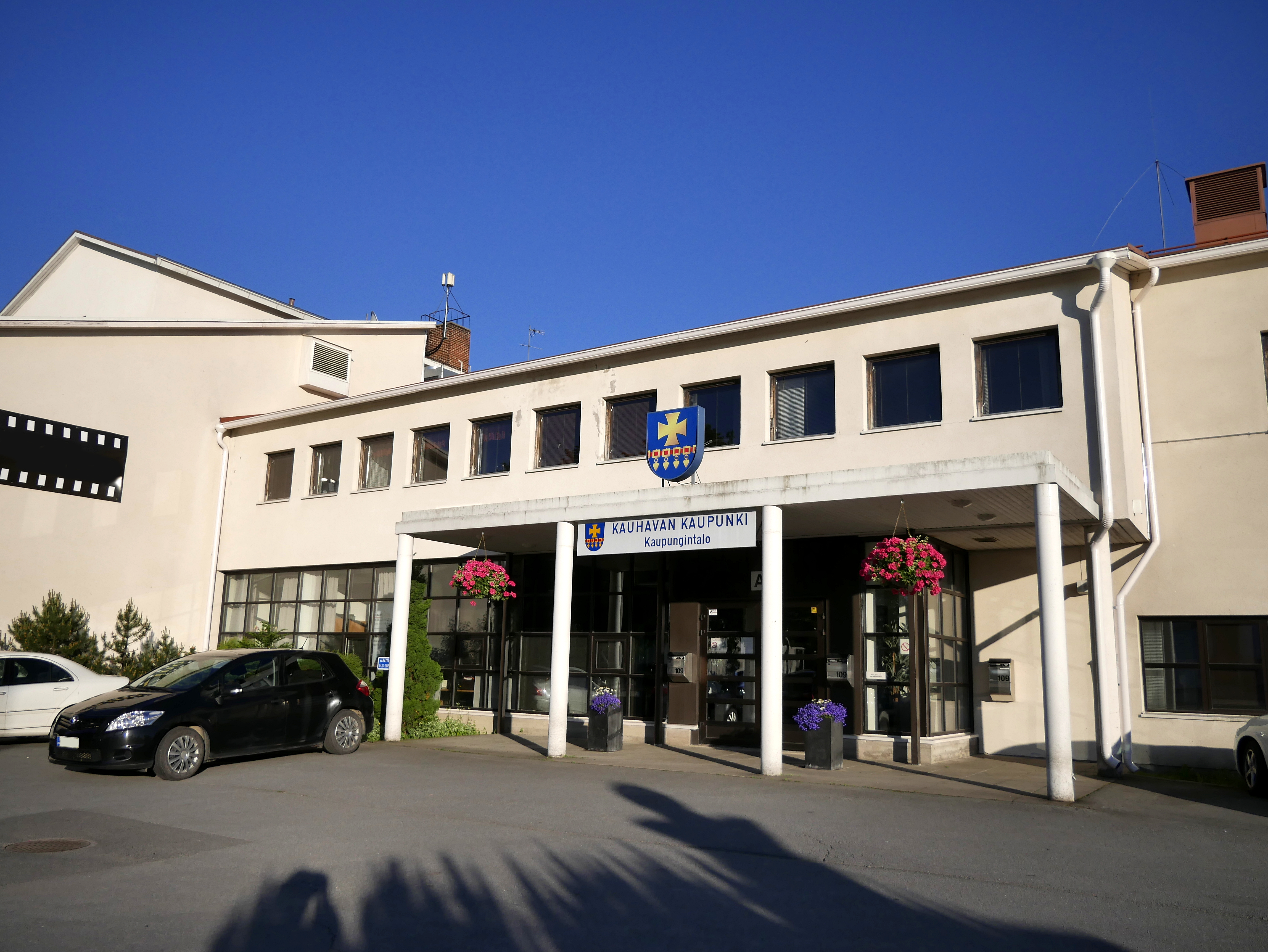 Kauhava town hall.